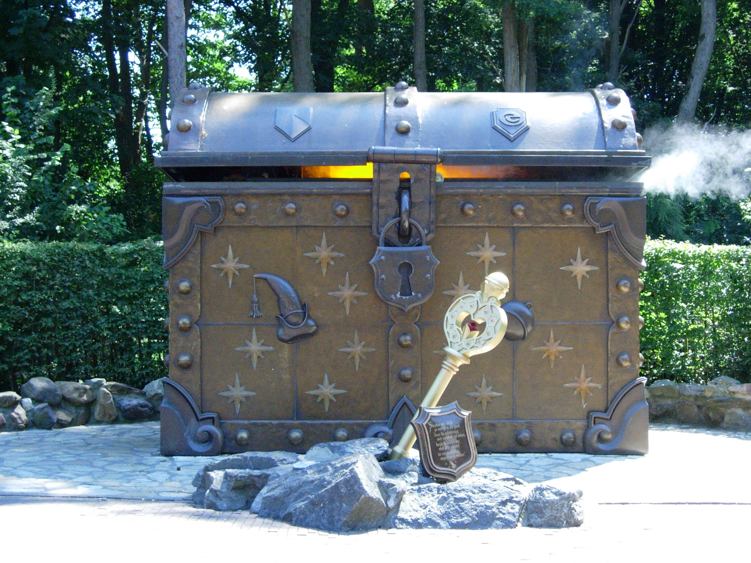 Pardoespromenade at Efteling